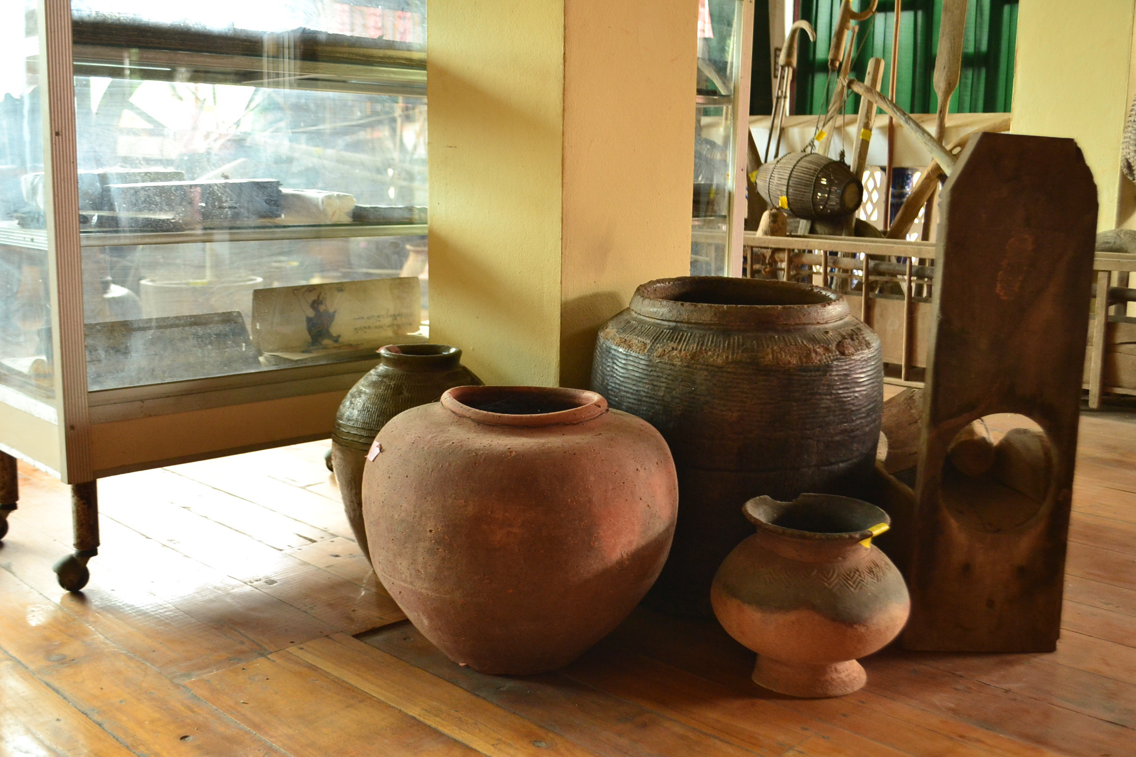 Wat Kungtapao Local Museum. at Wat Khung Taphao, Ban Khung Taphao, Khung Taphao subdistrict, Mueang Uttaradit, Uttaradit Province, Thailand.) on December 2, 2012.